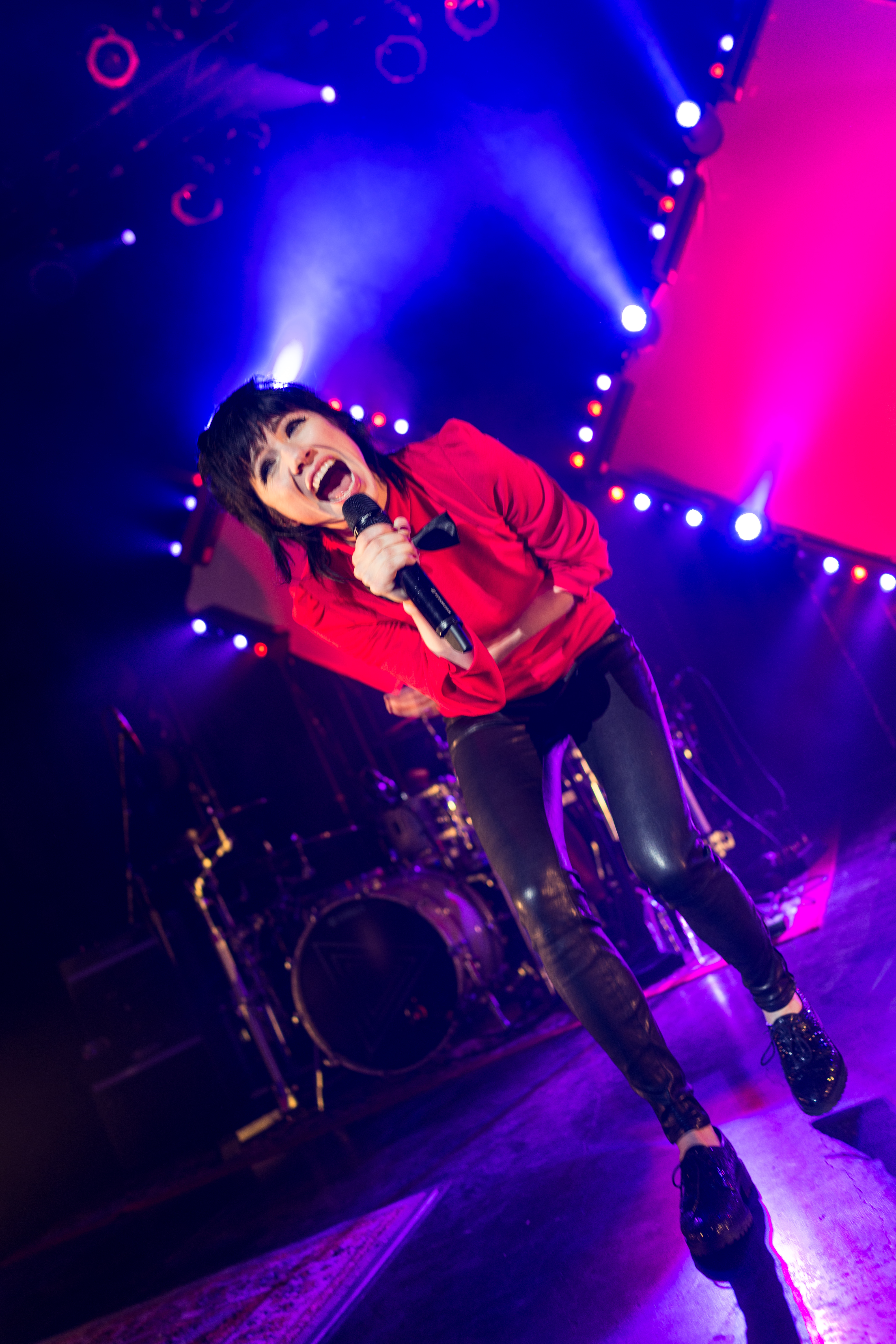 Carly Rae Jepsen performs in Salt Lake City (The Depot) as part of her Gimmie Love Tour